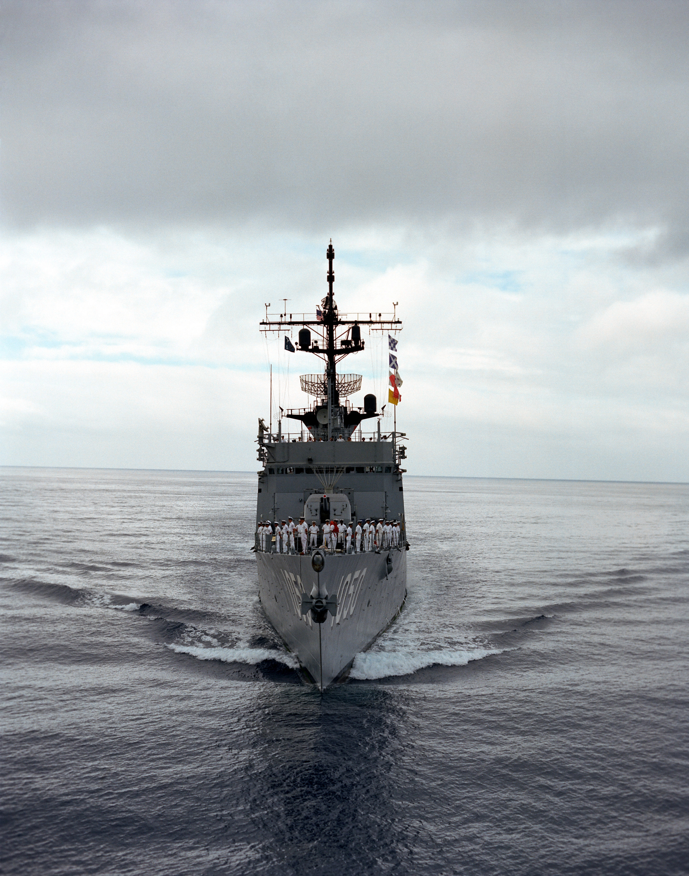 A bow view of the frigate USS ALBERT DAVID (FF 1050) underway off the Southern California coast.